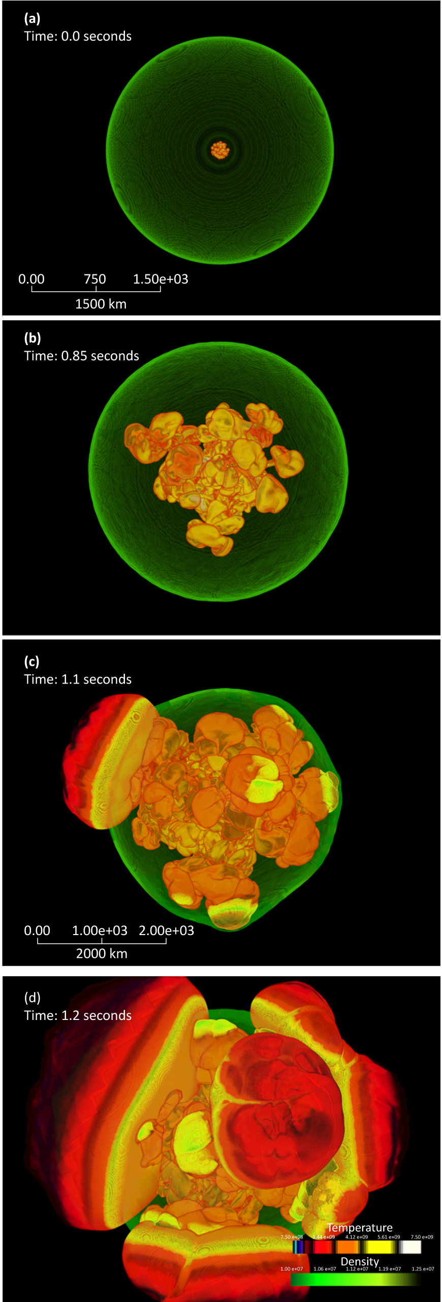 Four snapshots during a simulation of the explosion phase of the deflagrationto-detonation model of nuclear-powered Type Ia supernovae. The images show extremely hot matter (ash or unburned fuel) and the surface of the star (green). Ignition of the nuclear flame was assumed to occur simultaneously at 63 points randomly distributed inside a 128-km sphere at the center of the white dwarf star. Image: Argonne National Laboratory